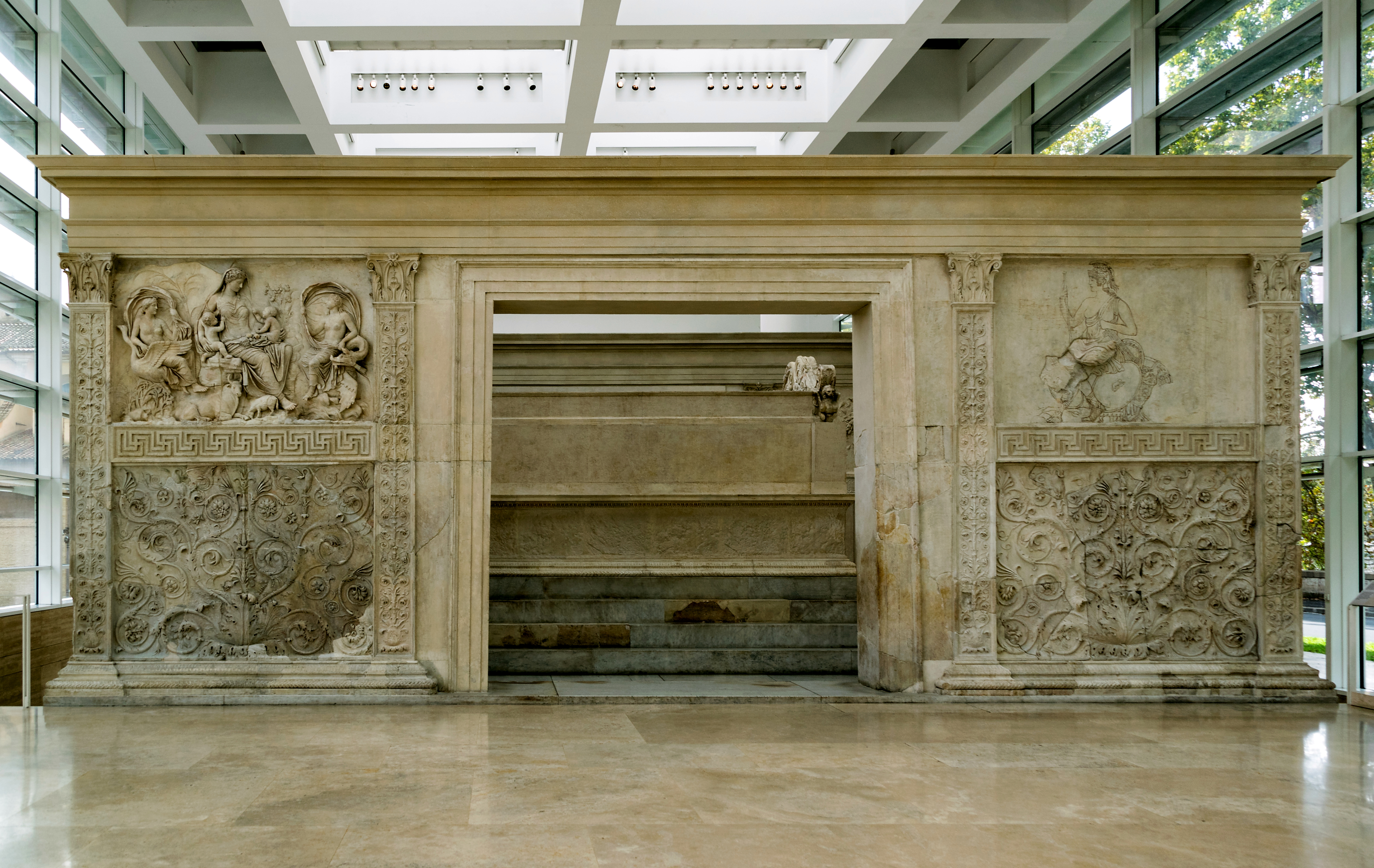 The Ara Pacis from the backside (head-on)